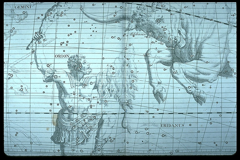 Plate with Orion and Eridanus constellations drawn by James Thornhill for the "Atlas Coelestis" (1729)